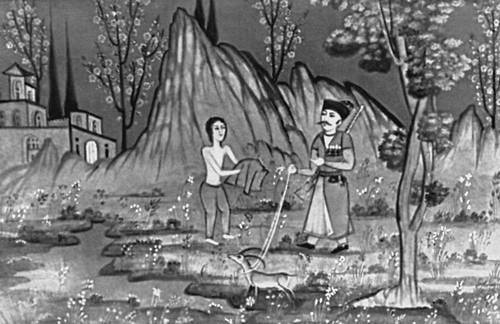 Miniature for Leyli and Majnun poem by famous Azerbaijani poet Fuzuli